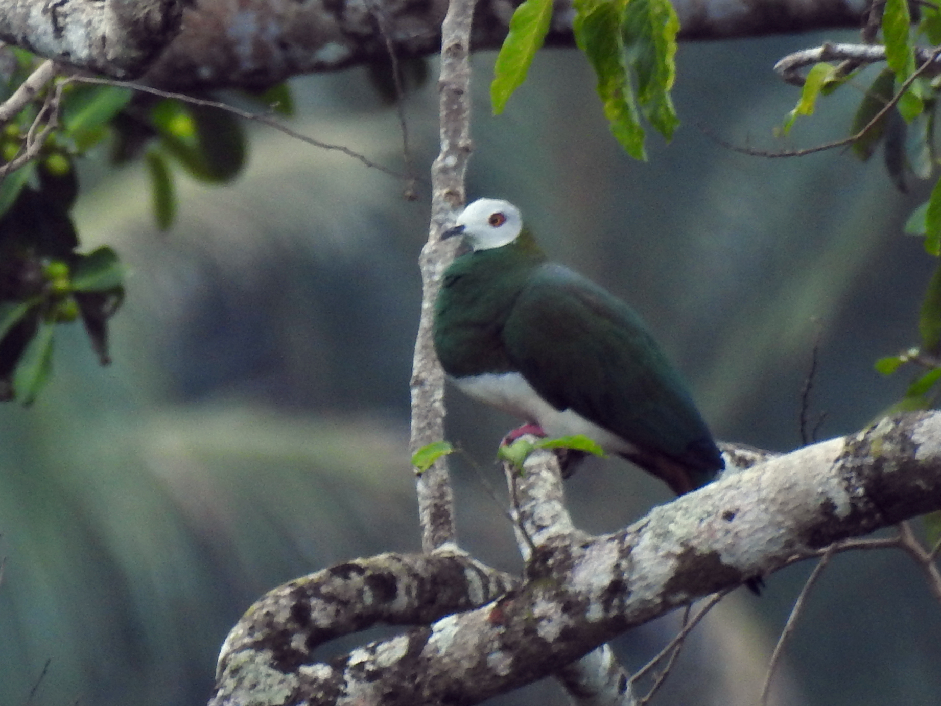 White-faced Cuckoo-Dove Turacoena manadensis in Tangkoko Nature Reserve, Sulawesi